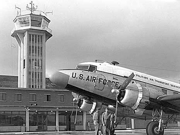 Control tower and MATS Facility, RAF Burtonwood. England.